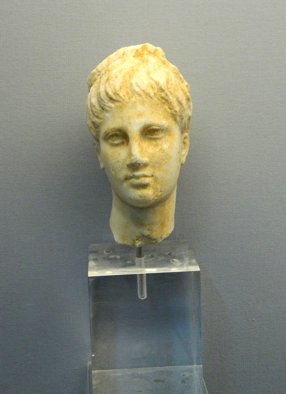 Marble head of Artemis Aspalis, from the sanctuary of Artemis, Melitaia, hellenistic period, now in the Archeological Museum of Lamia, Greece